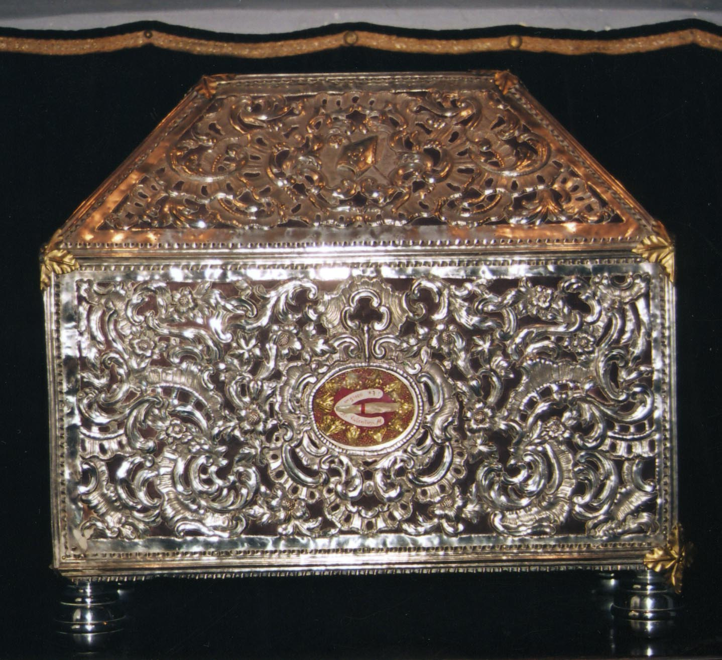 Reliquary of Saint Valentin of Terni, patron saint of Navarcles, Catalonia, Spain; casket made in 1776